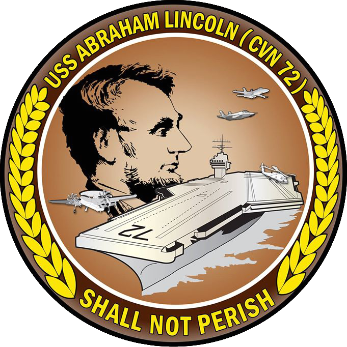 CVN-72 Crest